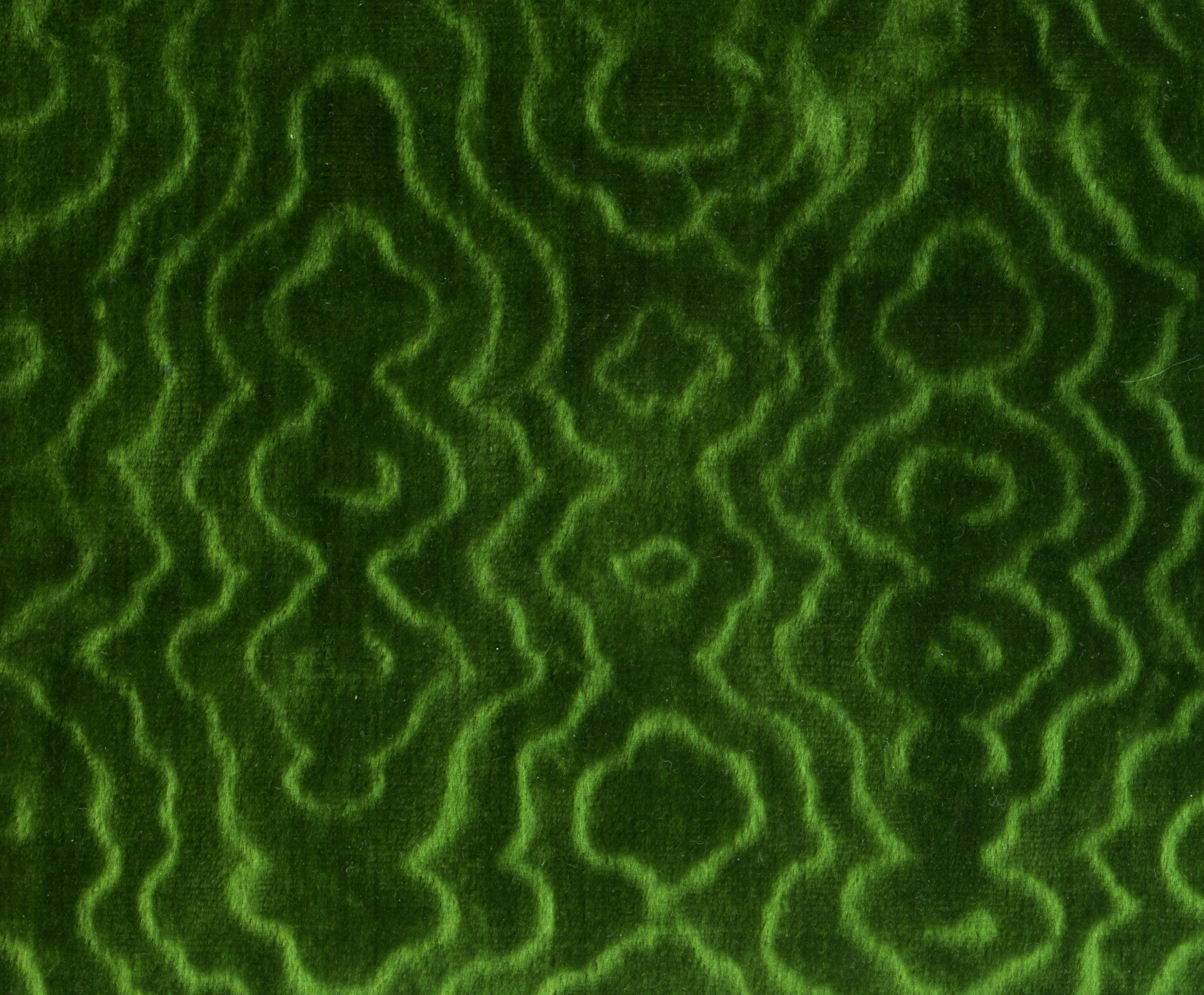 Velvet with moire effect